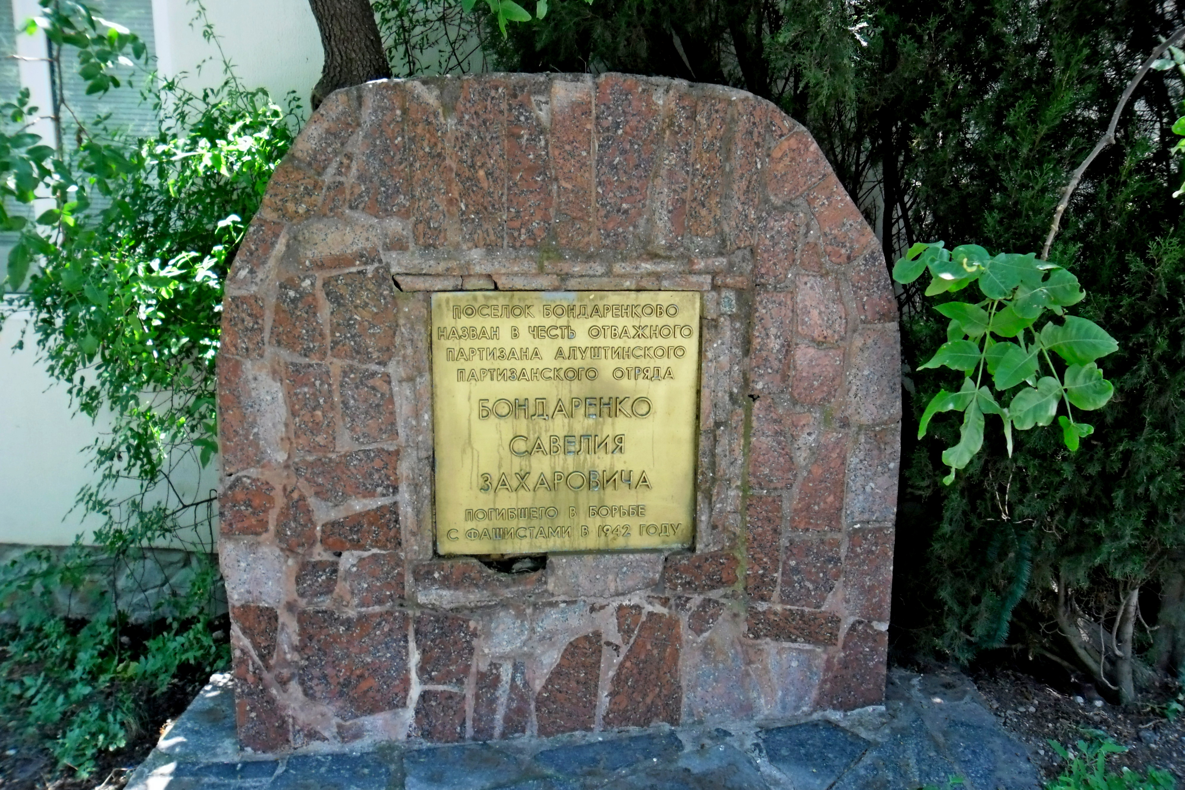 The memorial sign in honor of the village Sava Bondarenko Bondarenkovo​​, Alushta city council, Crimea